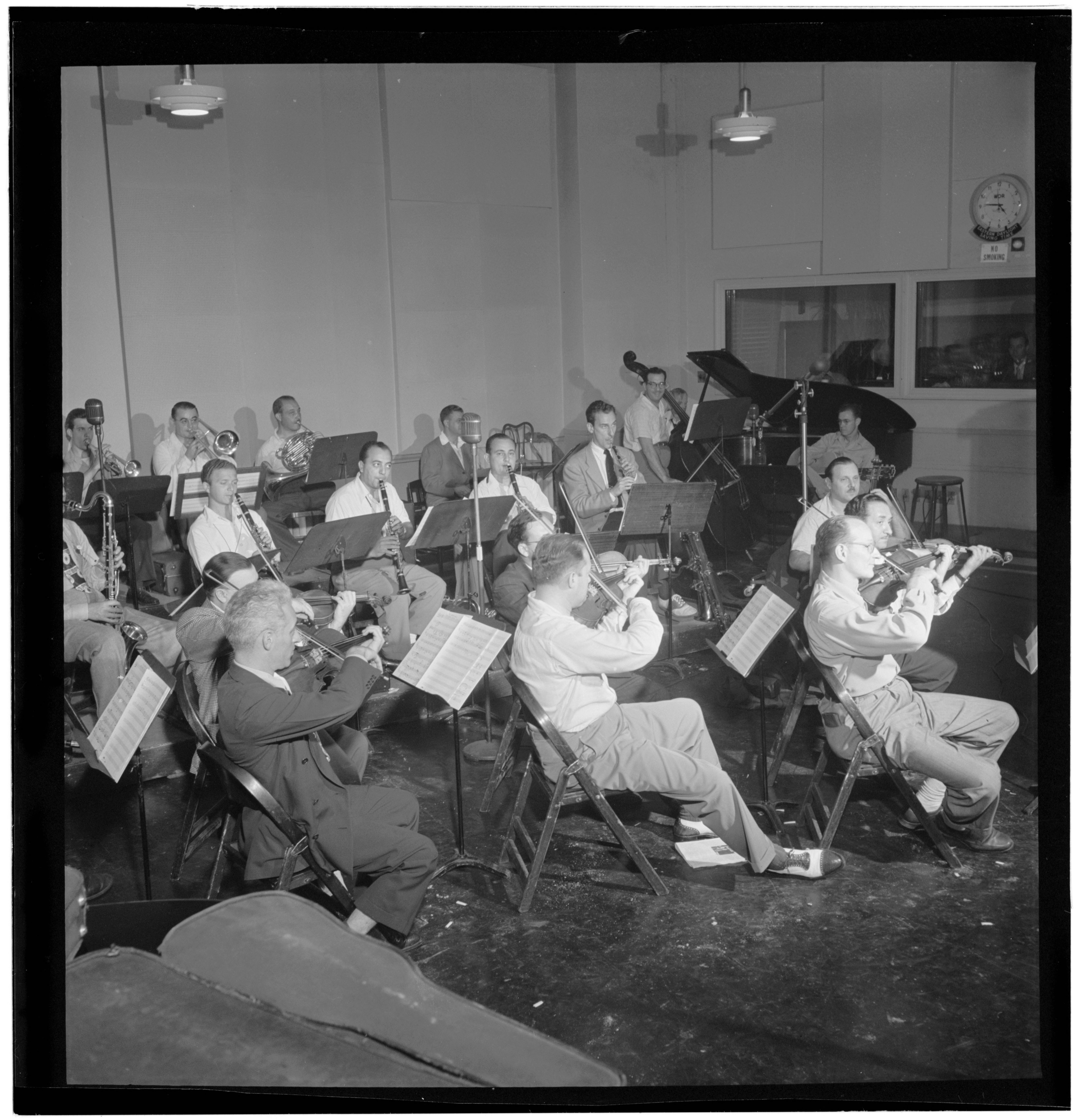 Gottlieb, William P., 1917-, photographer. [Billy Eckstine's orchestra, New York, N.Y., between 1946 and 1948] 1 negative : b&w ; 2 1/4 x 2 1/4 in. Notes: Gottlieb Collection Assignment No. 120 Purchase William P. Gottlieb Forms part of: William P. Gottlieb Collection (Library of Congress). Subjects: Jazz musicians--1940-1950. Orchestral musicians--1940-1950. Format: Portrait photographs--1940-1950. Group portraits--1940-1950. Film negatives--1940-1950. Rights Info: Mr. Gottlieb has dedicated these works to the public domain, but rights of privacy and publicity may apply. Repository: (negative) Library of Congress, Prints & Photographs Division, Washington D.C. 20540 USA, Part Of: William P. Gottlieb Collection (DLC) 99-401005 General information about the Gottlieb Collection is available at Persistent URL: Call Number: LC-GLB23- 1101 This work is from the William P. Gottlieb collection at the Library of Congress. Rights and restrictions.In accordance with the wishes of William Gottlieb, the photographs in this collection entered into the public domain on February 16, 2010.